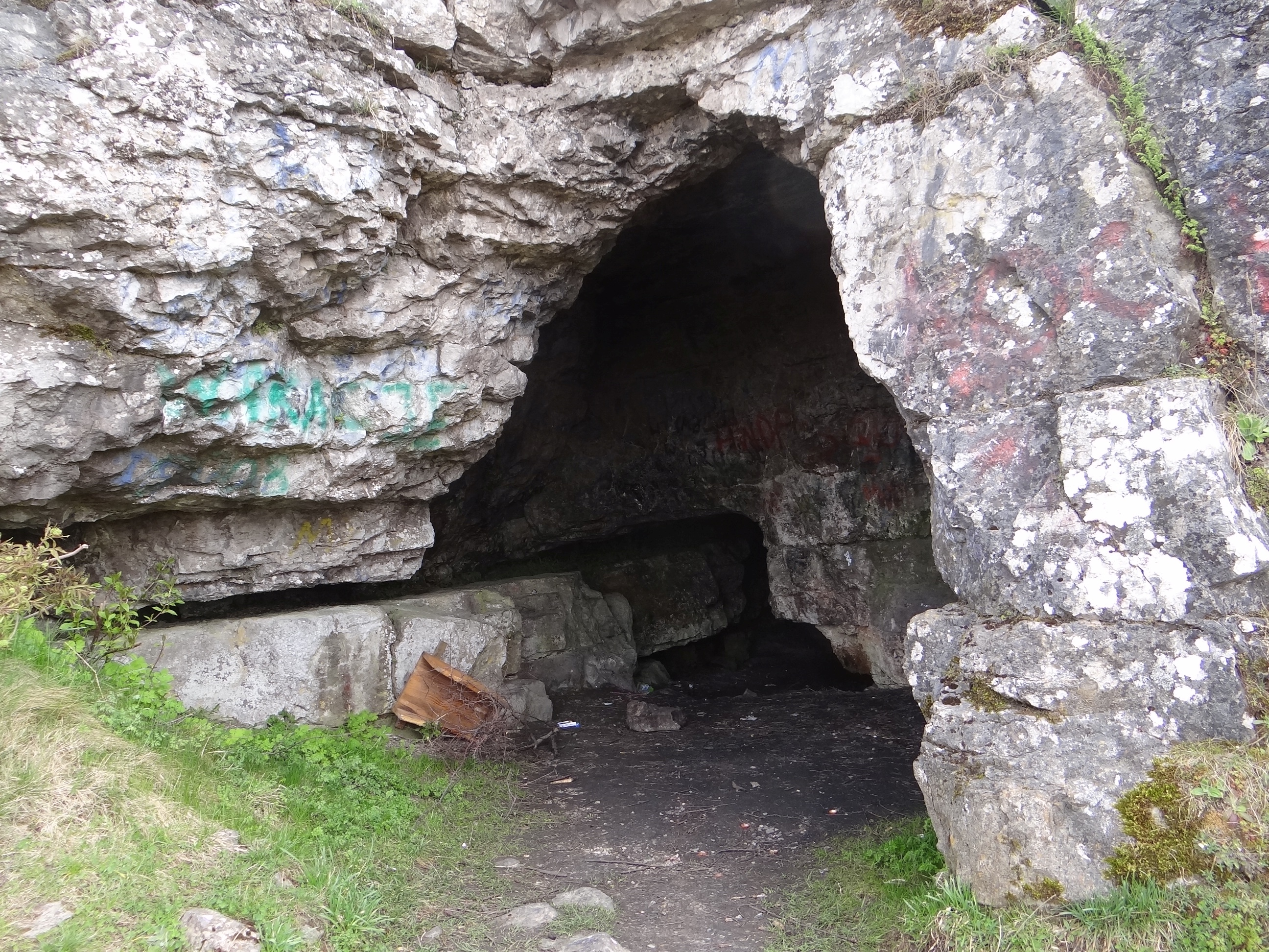 Zbójecka Cave